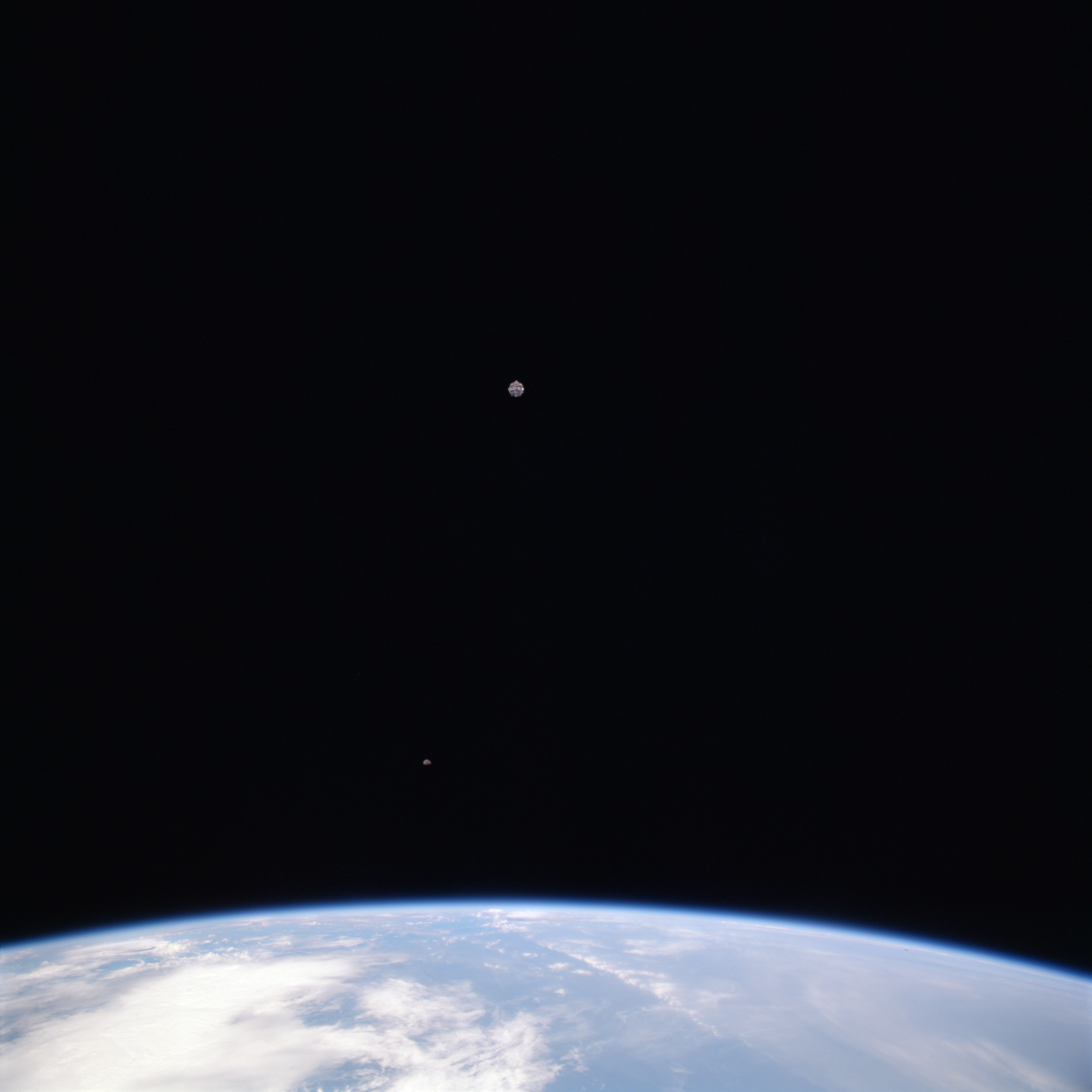 Wake Shield Facility satellite in flight behind Endeavour space shuttle, mission STS-69.